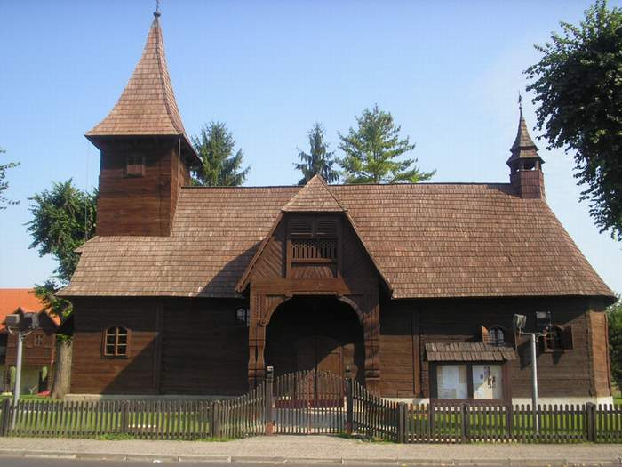 Chapel of Saint Barbara in Velika Mlaka, CroatiaHrvatski: Drvena kapelica sv. Barbare u Velikoj Mlaki kraj Velike Gorice